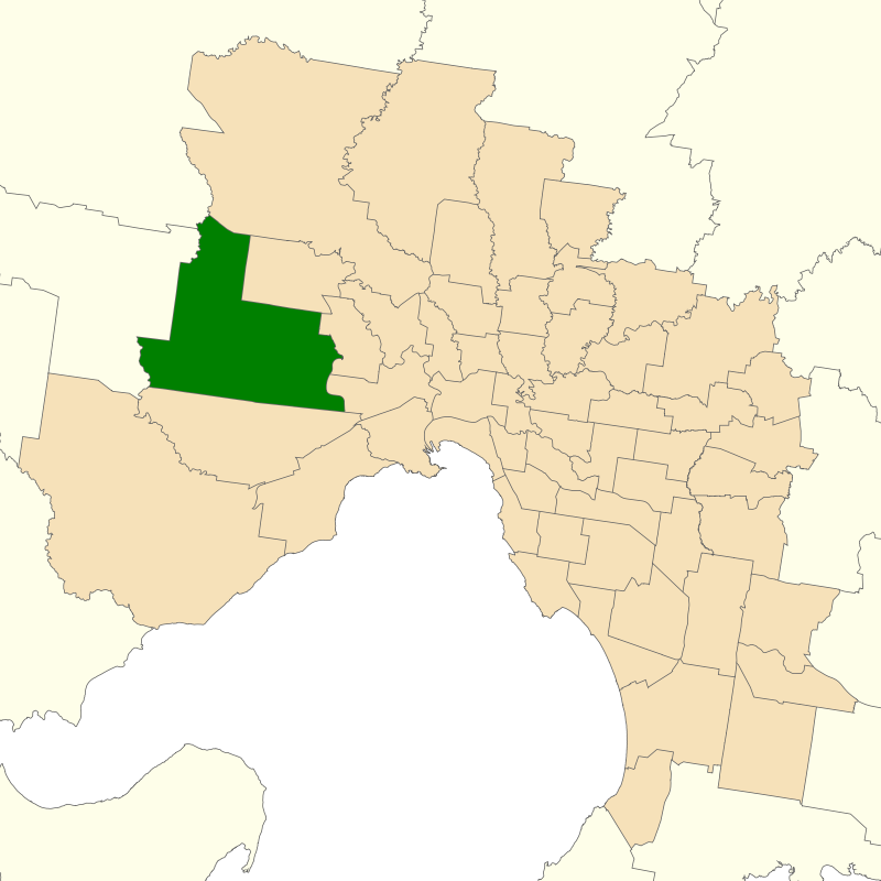 Location of the Victorian electoral district of Kororoit (dark green) in the Greater Melbourne area.